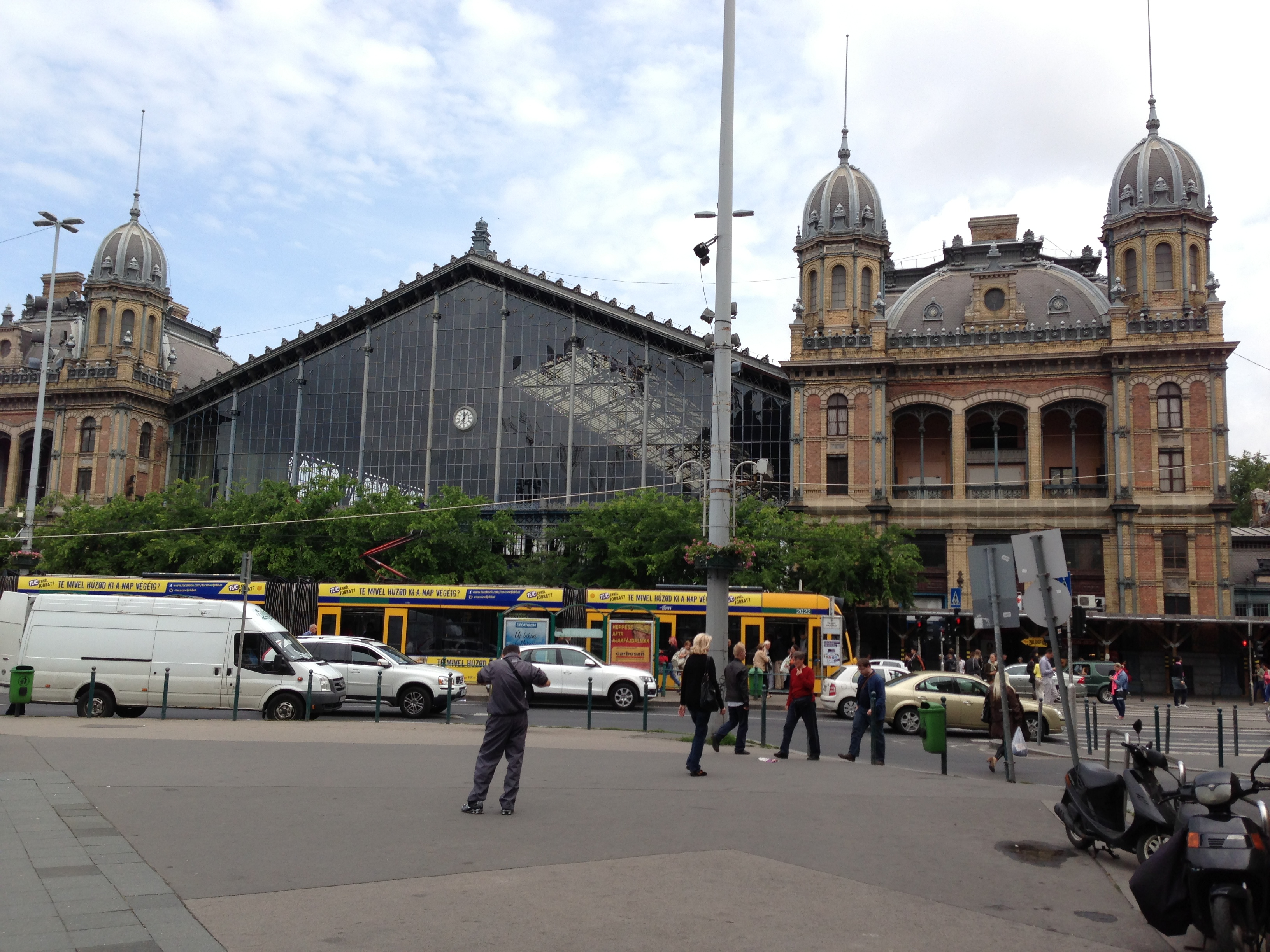 Budapest Nyugati Railway Station - 01